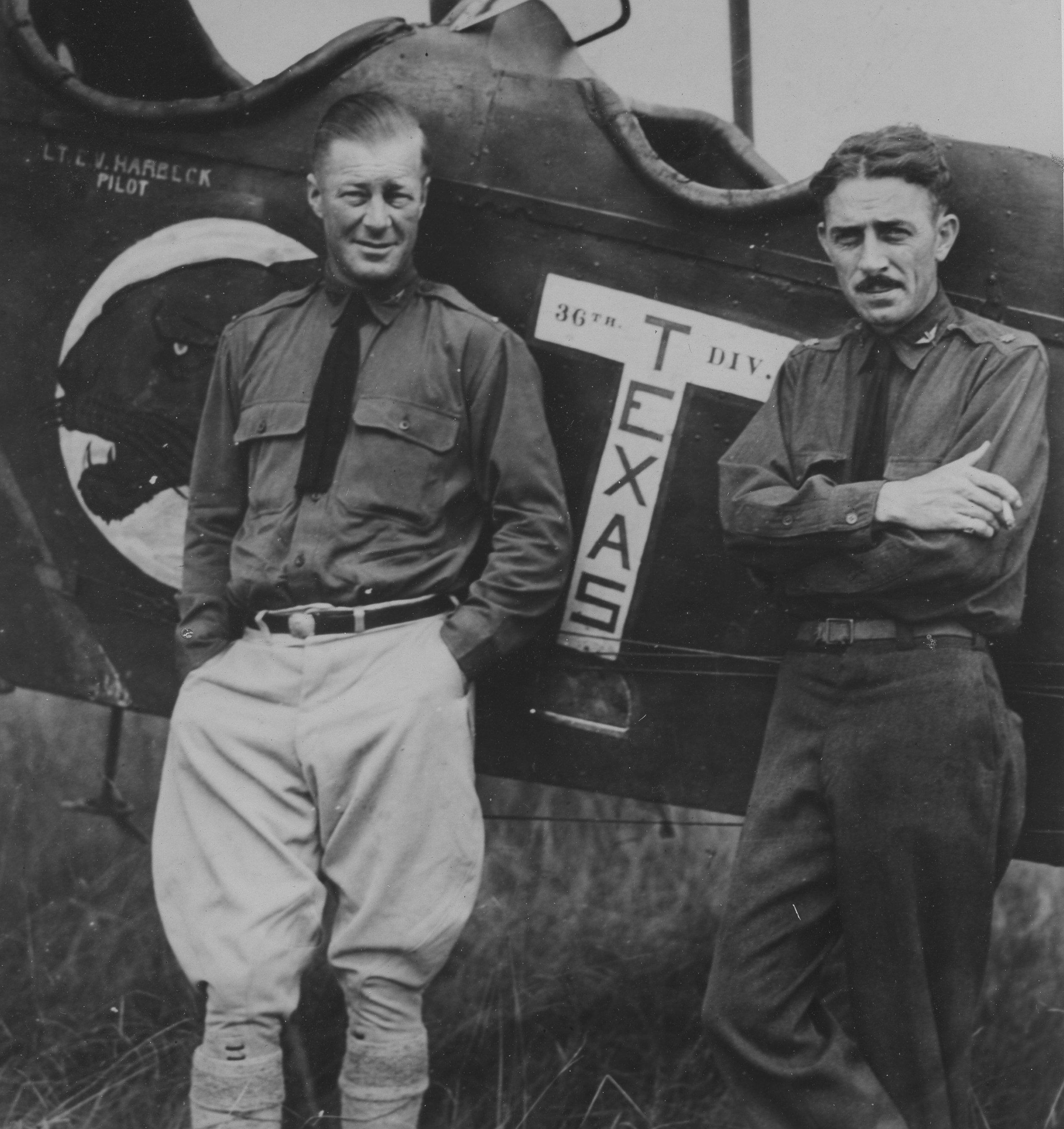 Officers of the 111th Observation Squadron (Division Aviation, 36th Division)